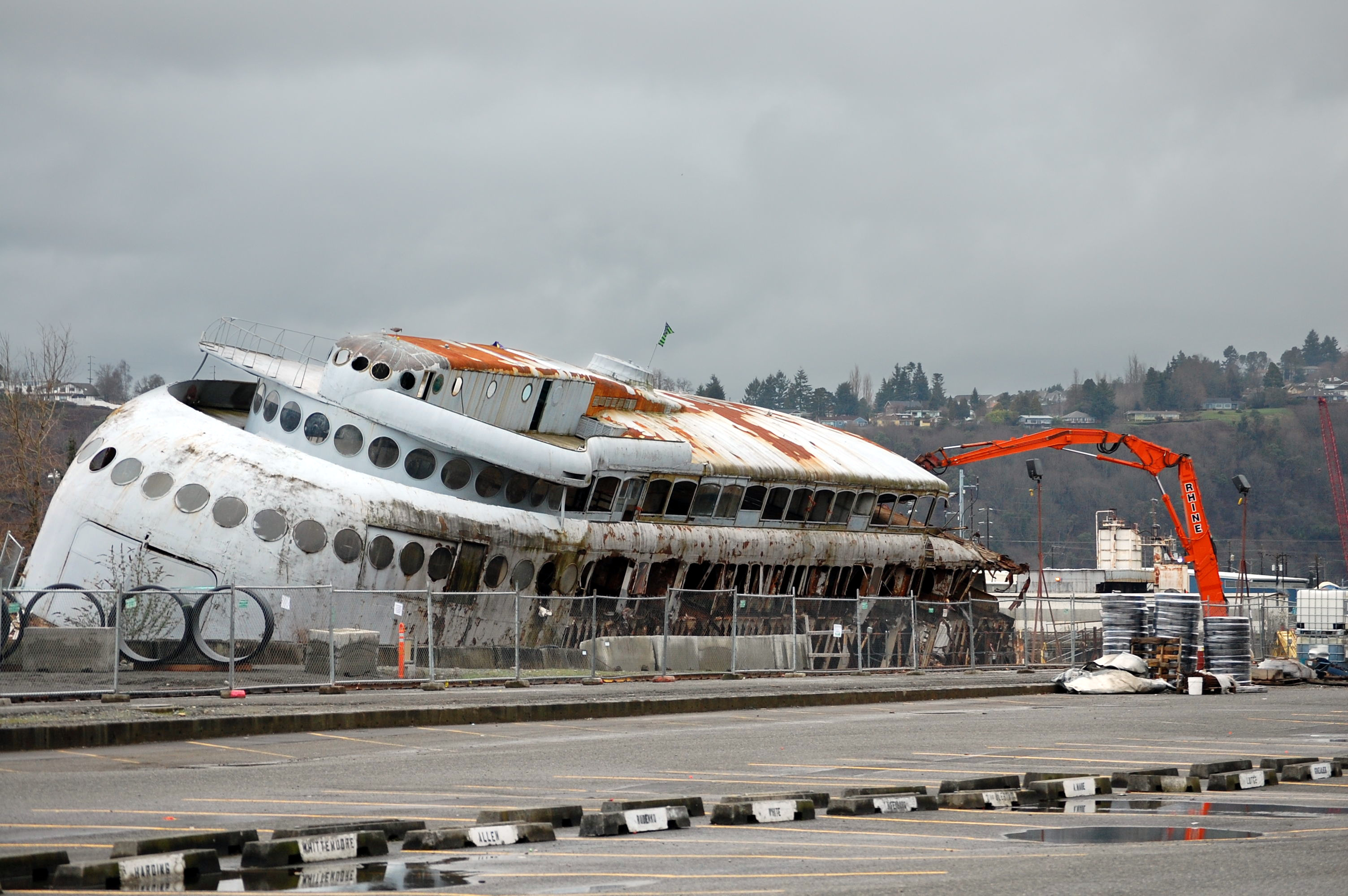 Photograph of the scrapping of the ferry Kalakala in Tacoma, WA taken January 24, 2015.